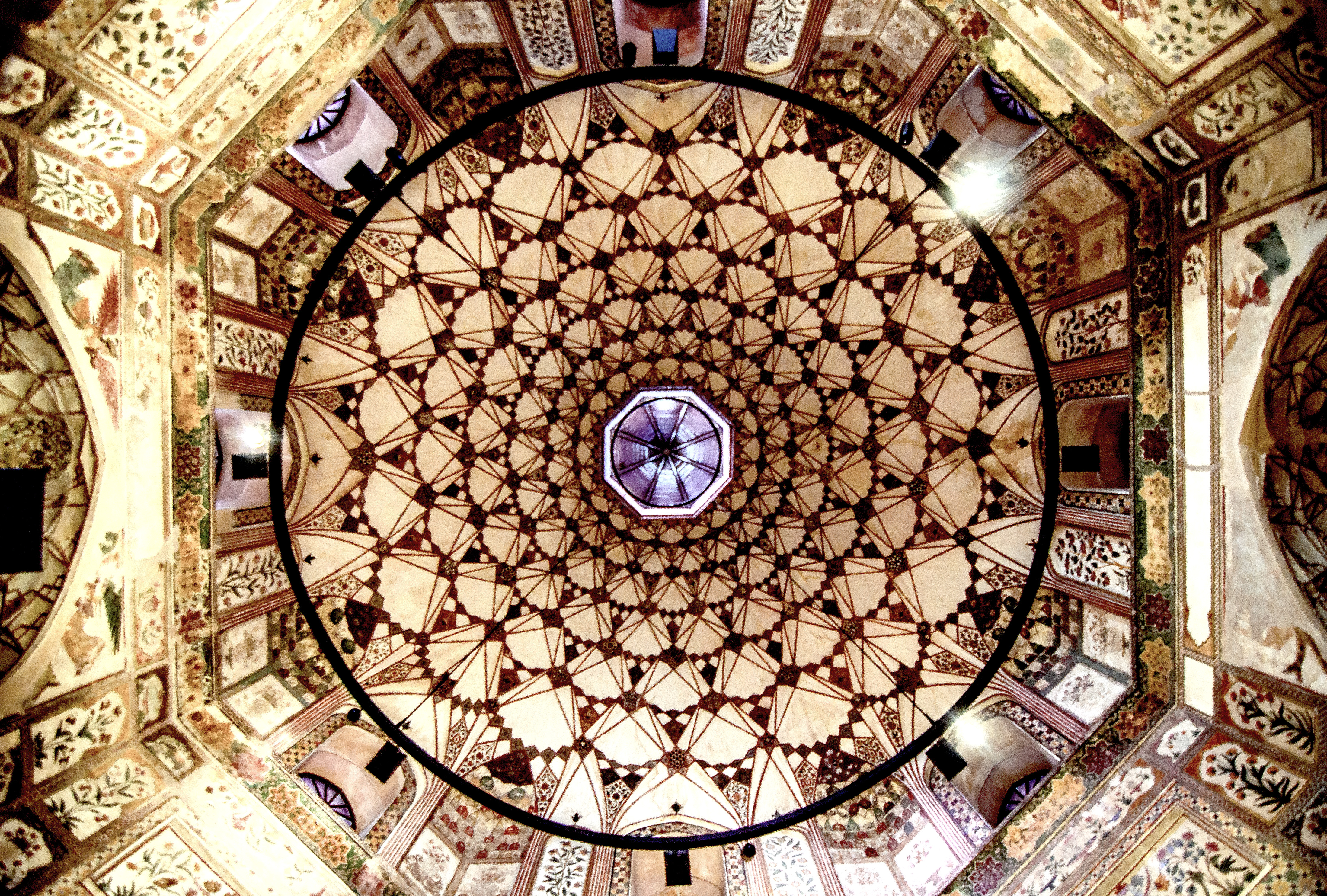 Wazir Khan's hammams This is a photo of a monument in Pakistan identified as the PB-99